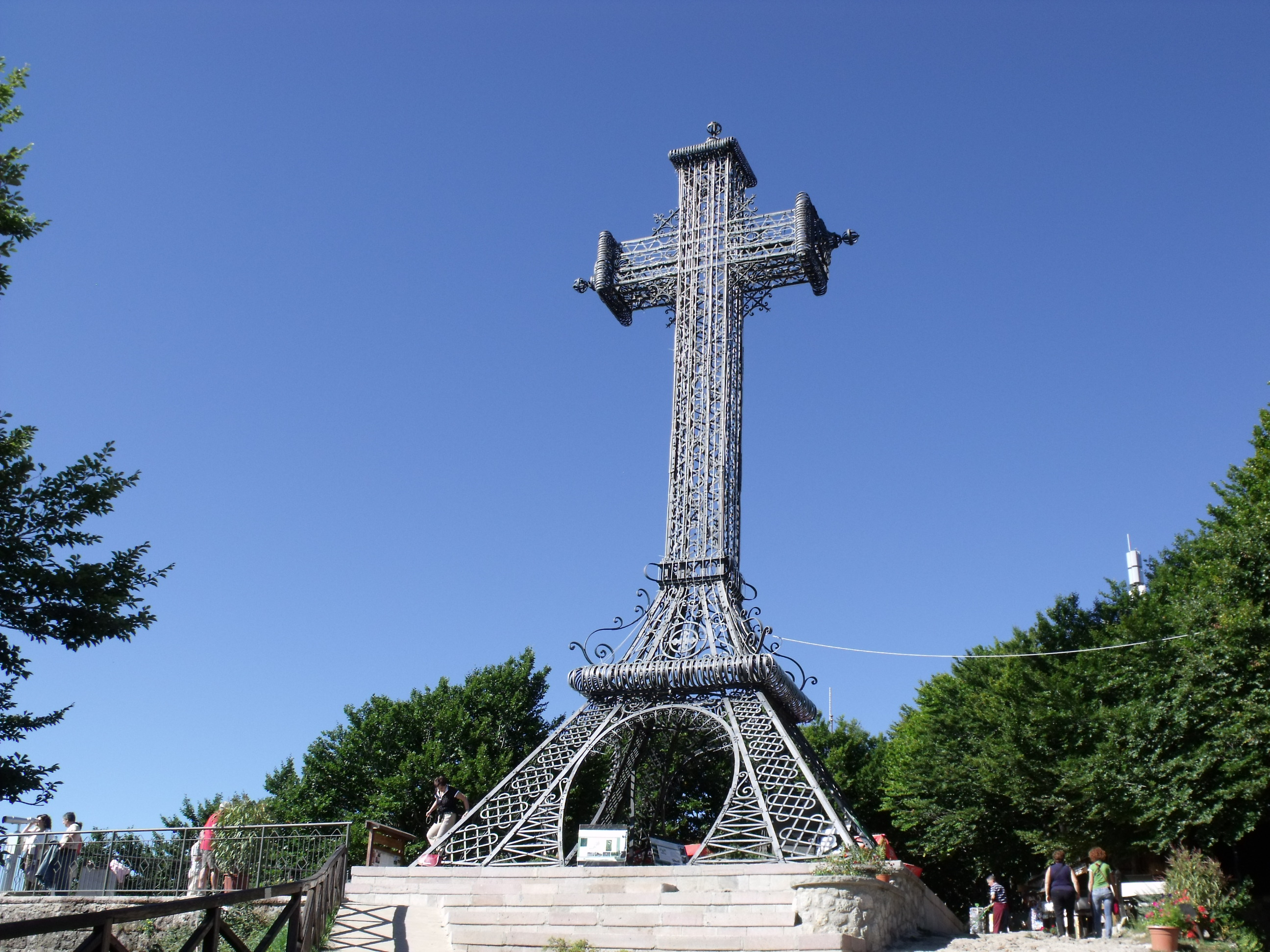 Summit cross on Monte Amiata, Provinces of Siena and Grosseto, Tuscany, Italy